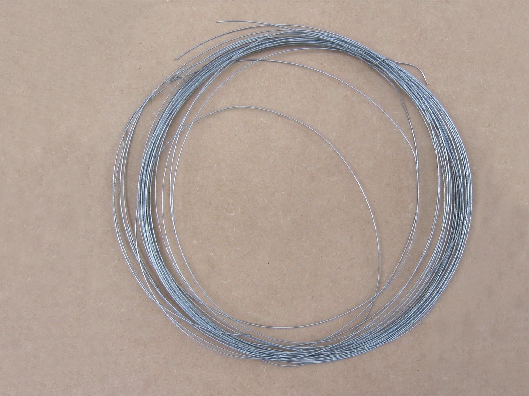 Iron wire